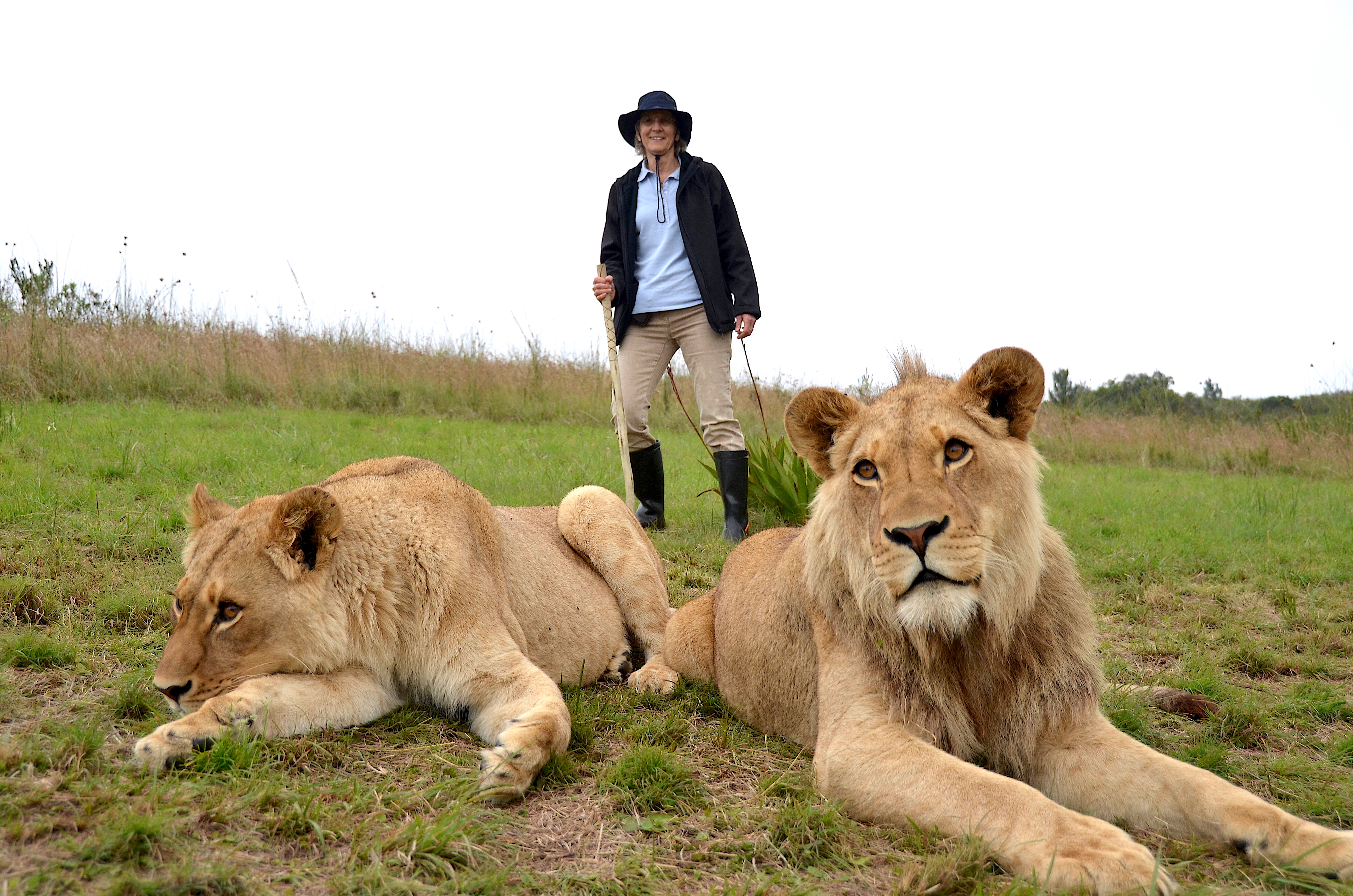 Guided tour with Lions at Botlierskop Game Reserve in South Africa